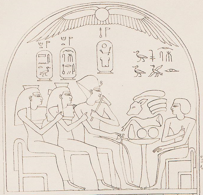 Drawing of the upper register of an ancient Egyptian stele, depicting four member of the royal family of the early 18th Dynasty. From left to right: Princess Sitamun A (daughter of pharaoh Ahmose I) Ahmose-Nefertari (Great wife of Ahmose I) Pharaoh Djeserkare Amenhotep I (son of Ahmose I) Prince Ahmose-Sapair (brother of Ahmose I). Found in the 1860s at Karnak.